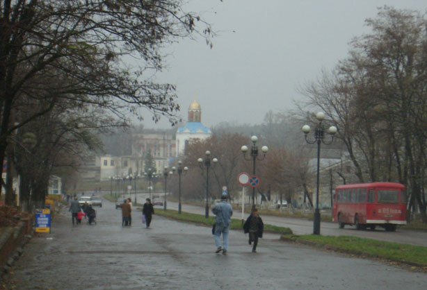 Typical small town view